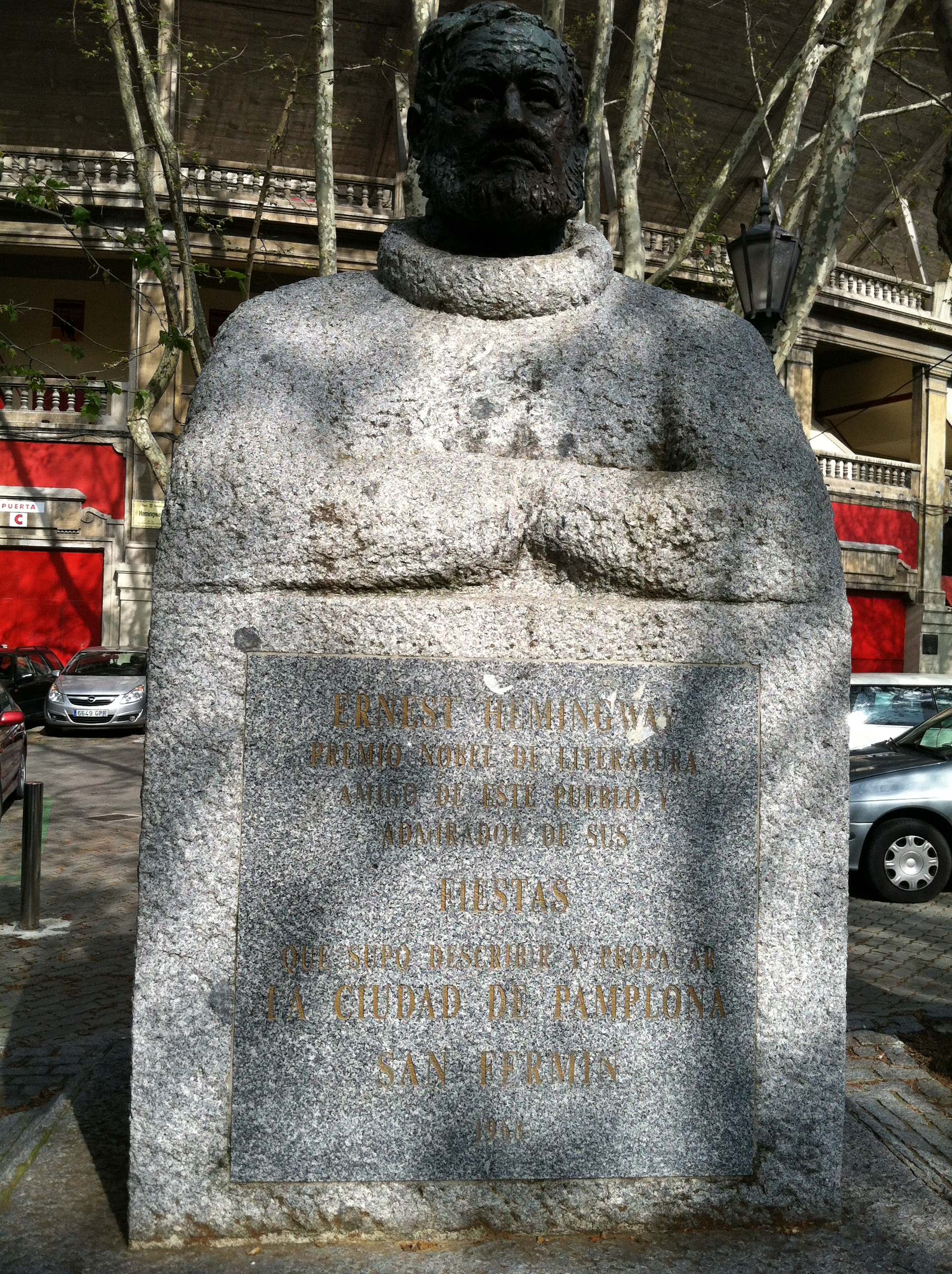 Monument to Ernest Hemingway outside the bullfight ring in Pamplona, Spain